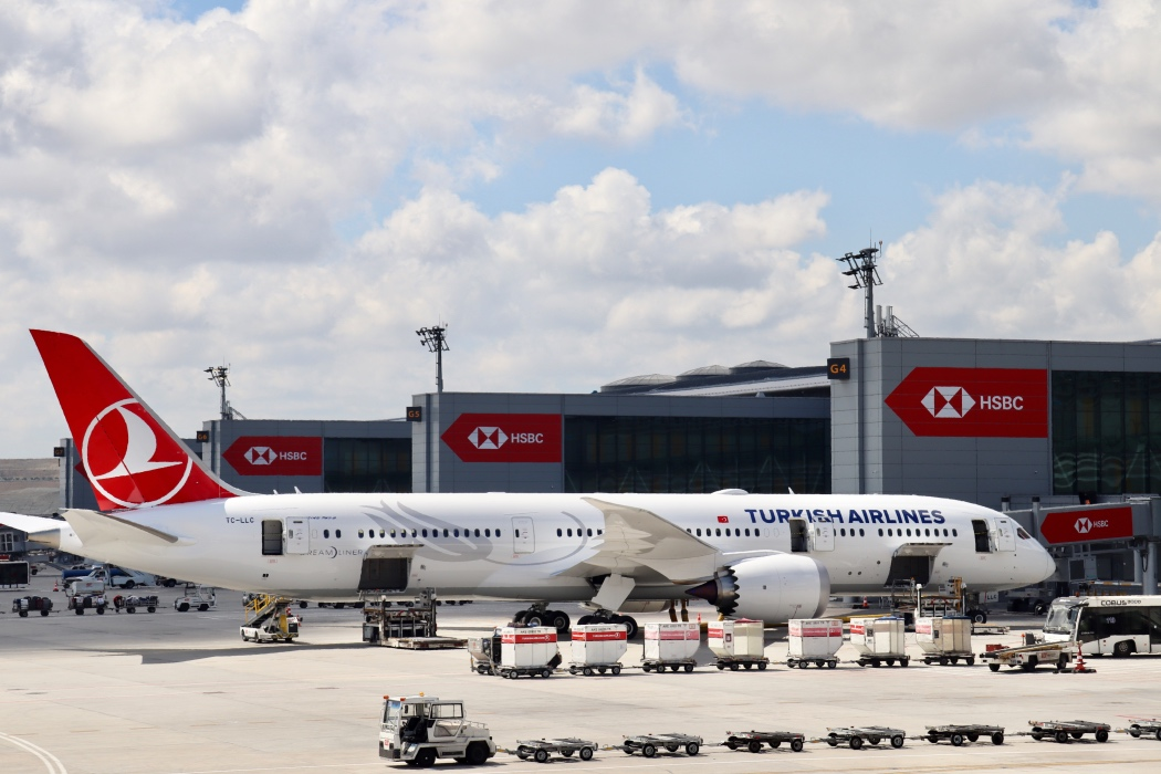 Turkish Airlines' brand-new Dreamliner at Istanbul Airport. TC-LLC is the third Dreamliner of Turkish Airlines.